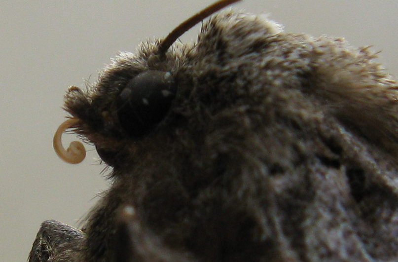 Neuranethes spodopterodes does not feed as an adult. Note the vestigial mouthparts.